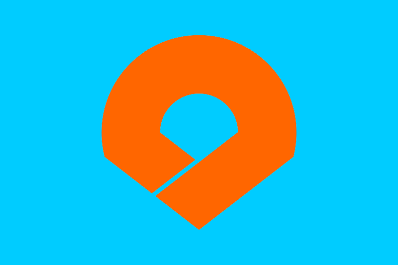 Guide flag of Wakayama Prefecture.